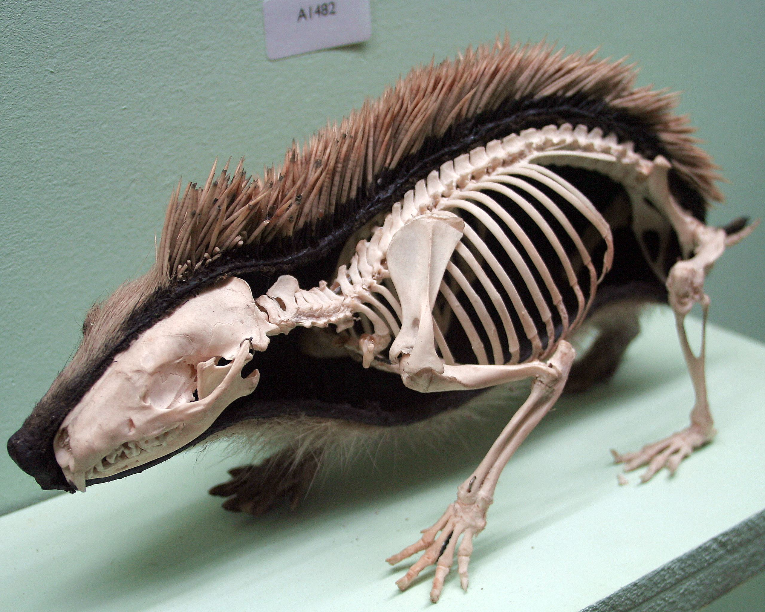 A preserved hedgehog showing how the skeleton fits inside its skin, at the Horniman Museum.